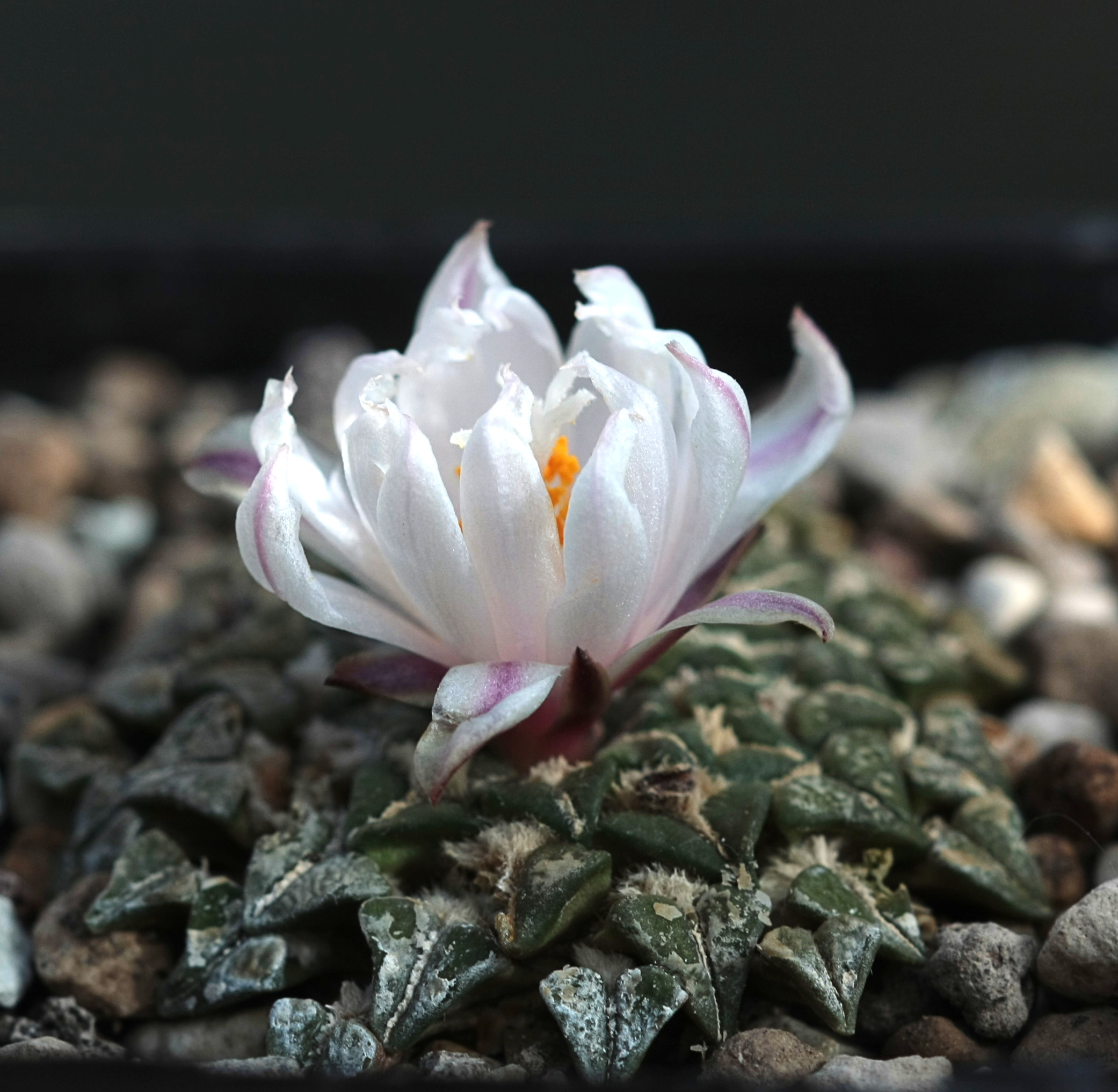 Ariocarpus kotschoubeyanus v.albiflorus